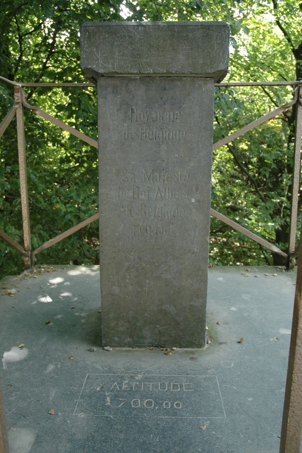 The Baltia Tower at the Signal de Botrange, which marks the highest point of Belgium. The tower was built to raise the natural height of the Botrange from 694 m (2,277 ft) to an even 700 m (2,297 ft). It was named after Baron Herman Baltia.